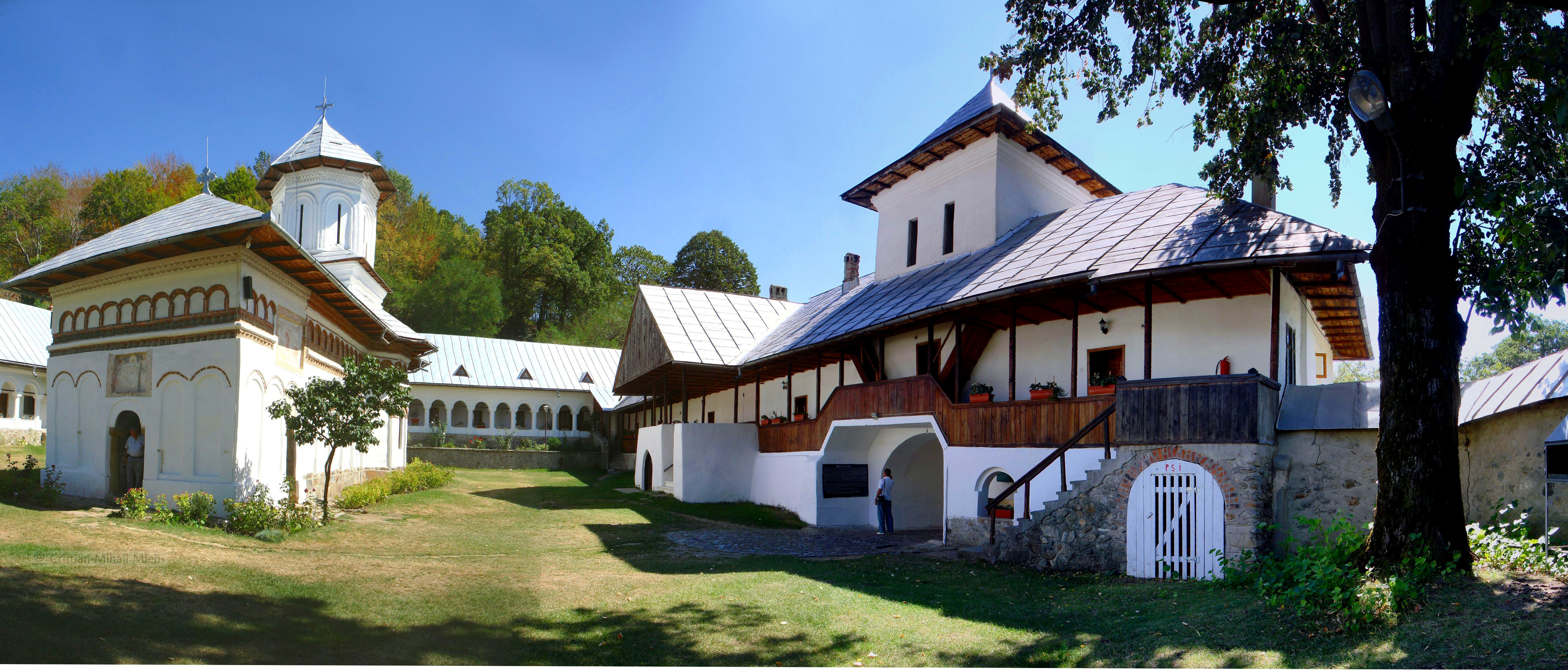 The cloister Crasna – Panorama with the church and the cells.